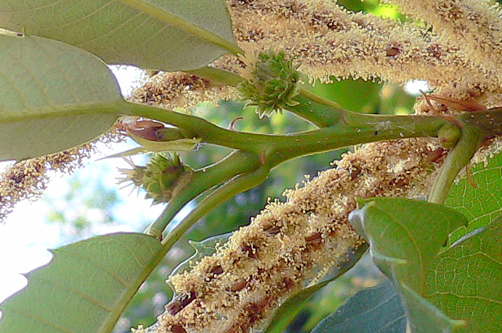 Castanea sativa flowers